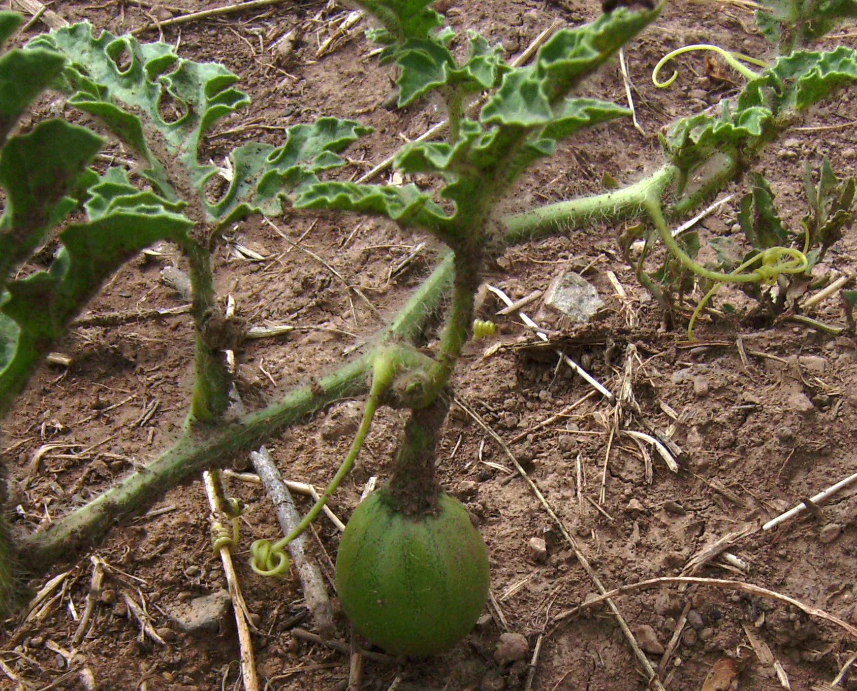 Watermelon's young fruit, Castelltallat, Catalonia